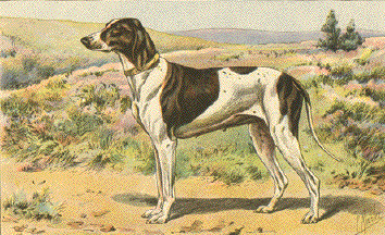 Braque du Puy